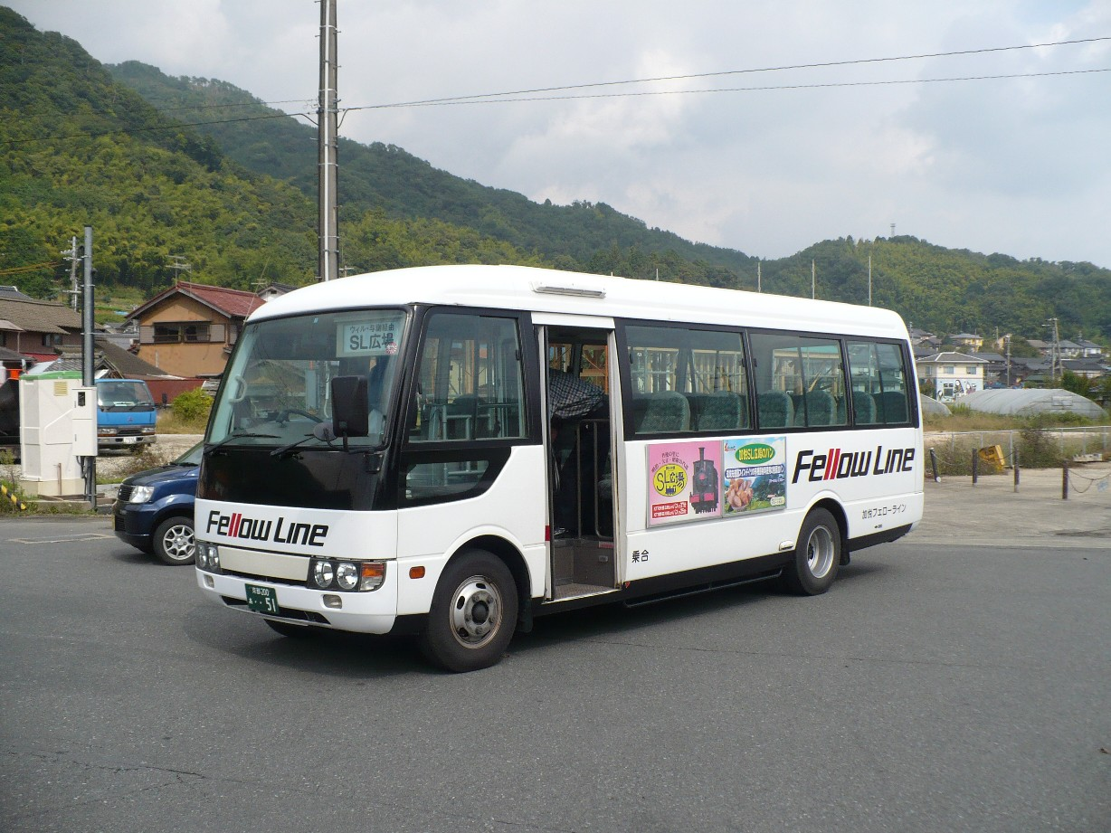 An omnibus operated by Kaya Fellow Line, which is parking in front of Nodagawa railway station of Kitakinki Tango Railway. Yosano town, Kyoto prefecture Japan.